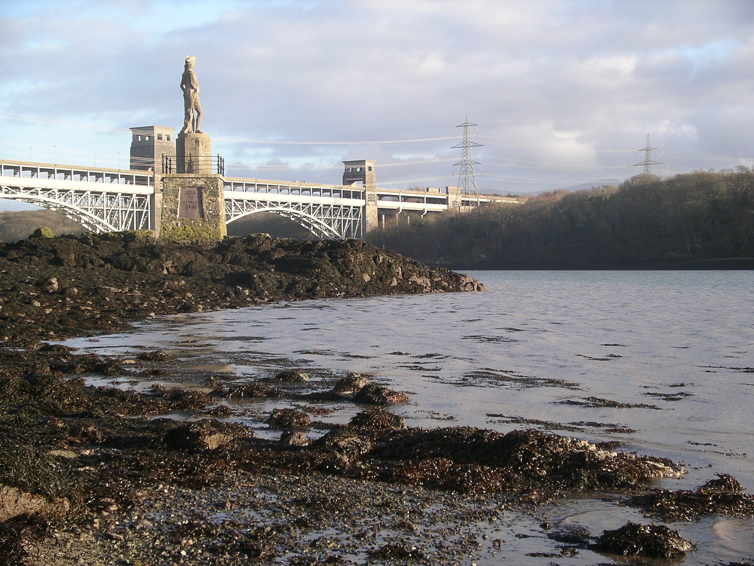 View from the west of Britannia Bridge along the Menai Strait, North Wales. The statue is of Admiral Lord Nelson.